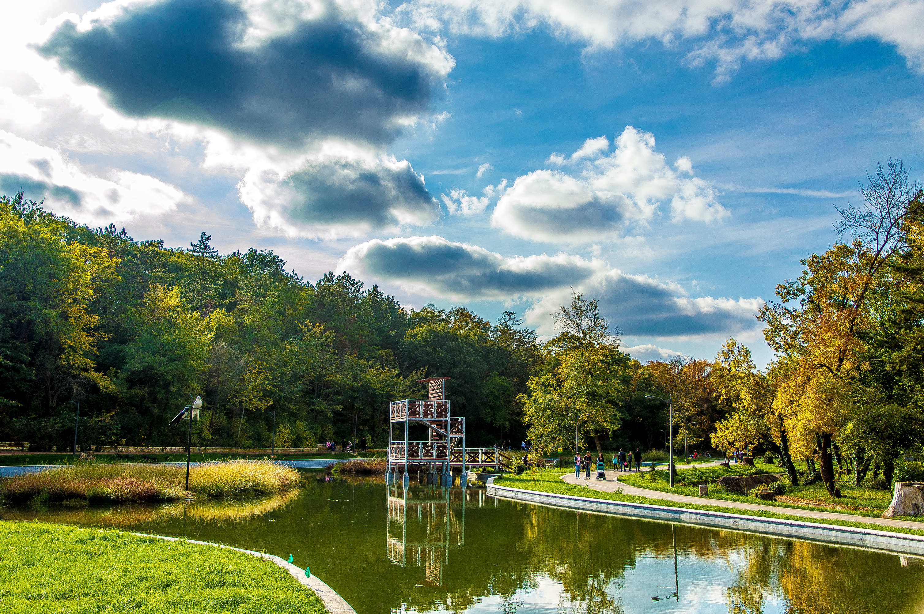 Dobrich photo gallery